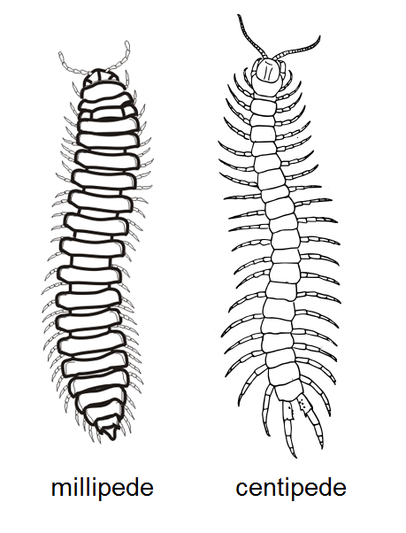 Comparison of a generalized polydesmidan millipede (left) and a scolopendrid centipede (right). Not to scale.